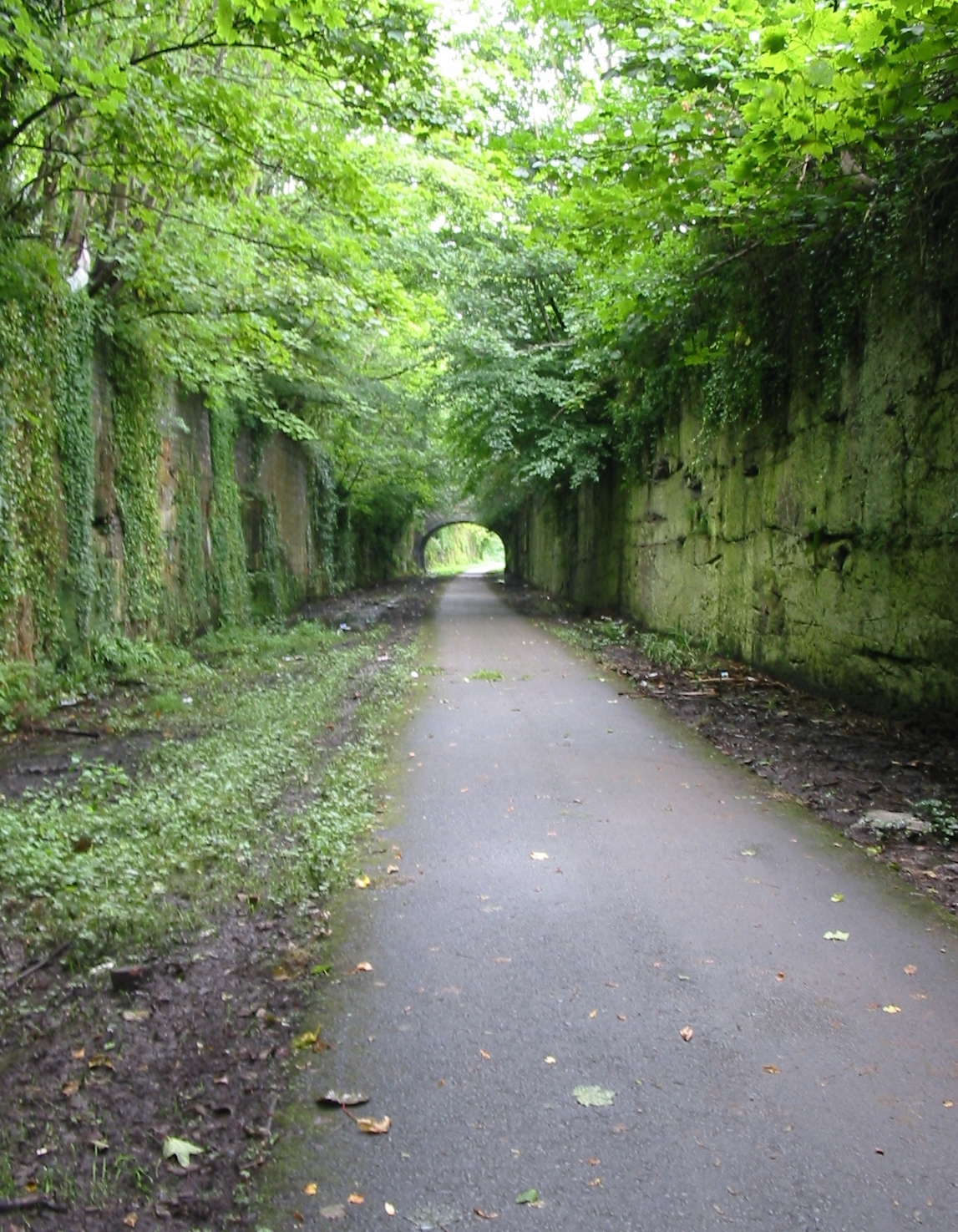 Liverpool